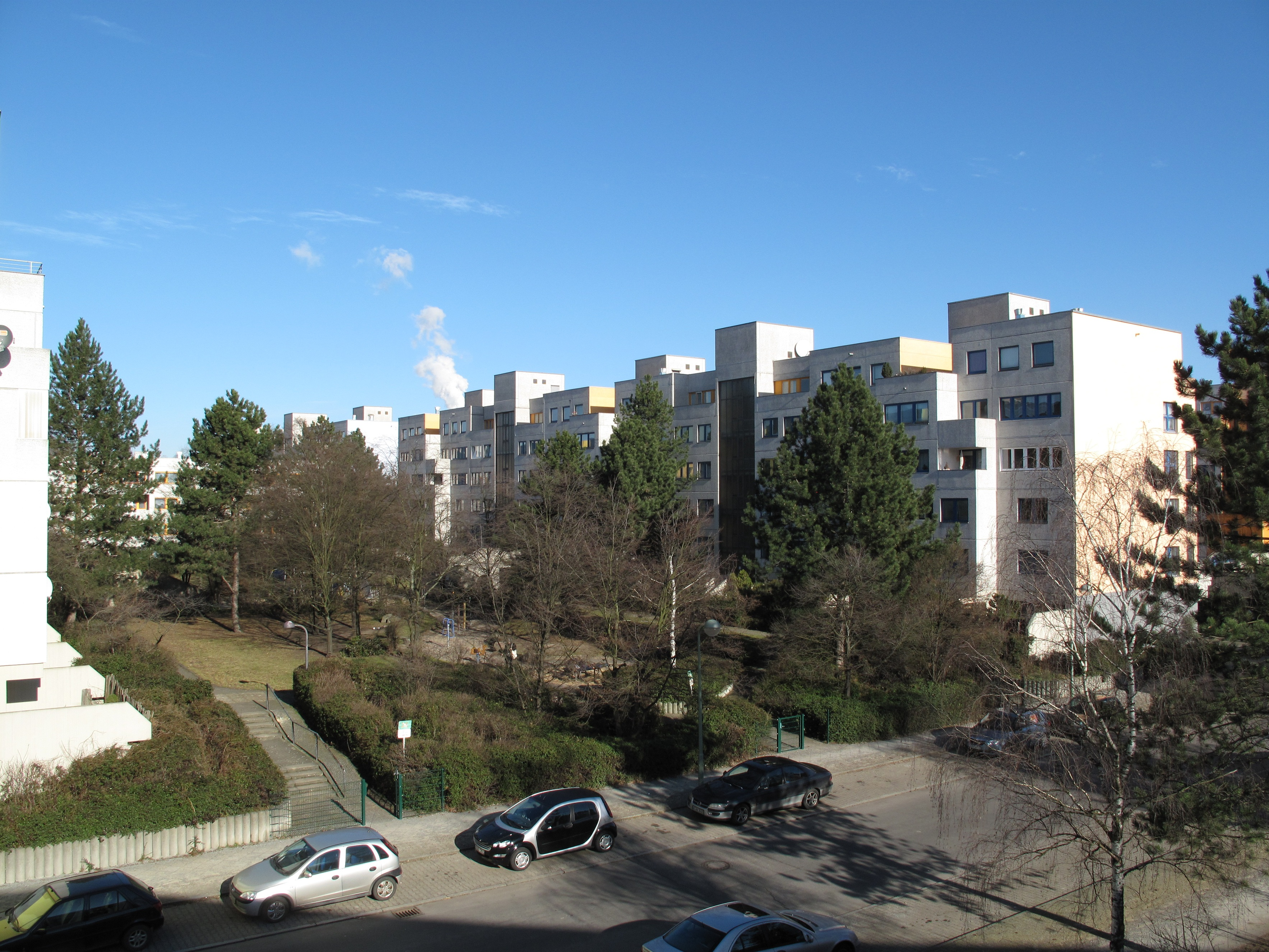 Fritzi-Massary-Straße and green/garden-area between the block of flats of the Leo-Slezak-Straße/Heinrich-Schlusnus-Straße in the High-Deck-Siedlung. The High-Deck-Siedlung is a housing estate in Berlin-Neukölln with ca. 6.000 inhabitants. The estate was built in the 1970s/1980s within the subsidized housing by the architects Rainer Oefelein and Bernhard Freund. Their innovative urban development concept counted on a structurally separation of pedestrians and traffic in opposition to Berlin's „urbanity through density“ conception (high-rise-estates) at that time. Above the streets spandrel-braced, green foot pathes (the High-Decks) connect the mainly five to six storied houses. Was the estate after it's construction regarded as the epitome of a tranquil and modern urban living at the green edge of West Berlin, it has evolved after the fall of Berlins Wall into a social hotspot. There was set up a neighbourhood management in 1999.